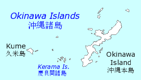 The map of Okinawa Islands, Japan.